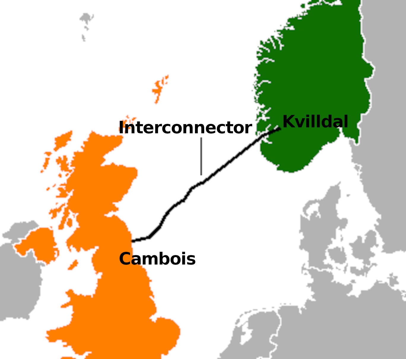 Map of North Sea Link undersea cable